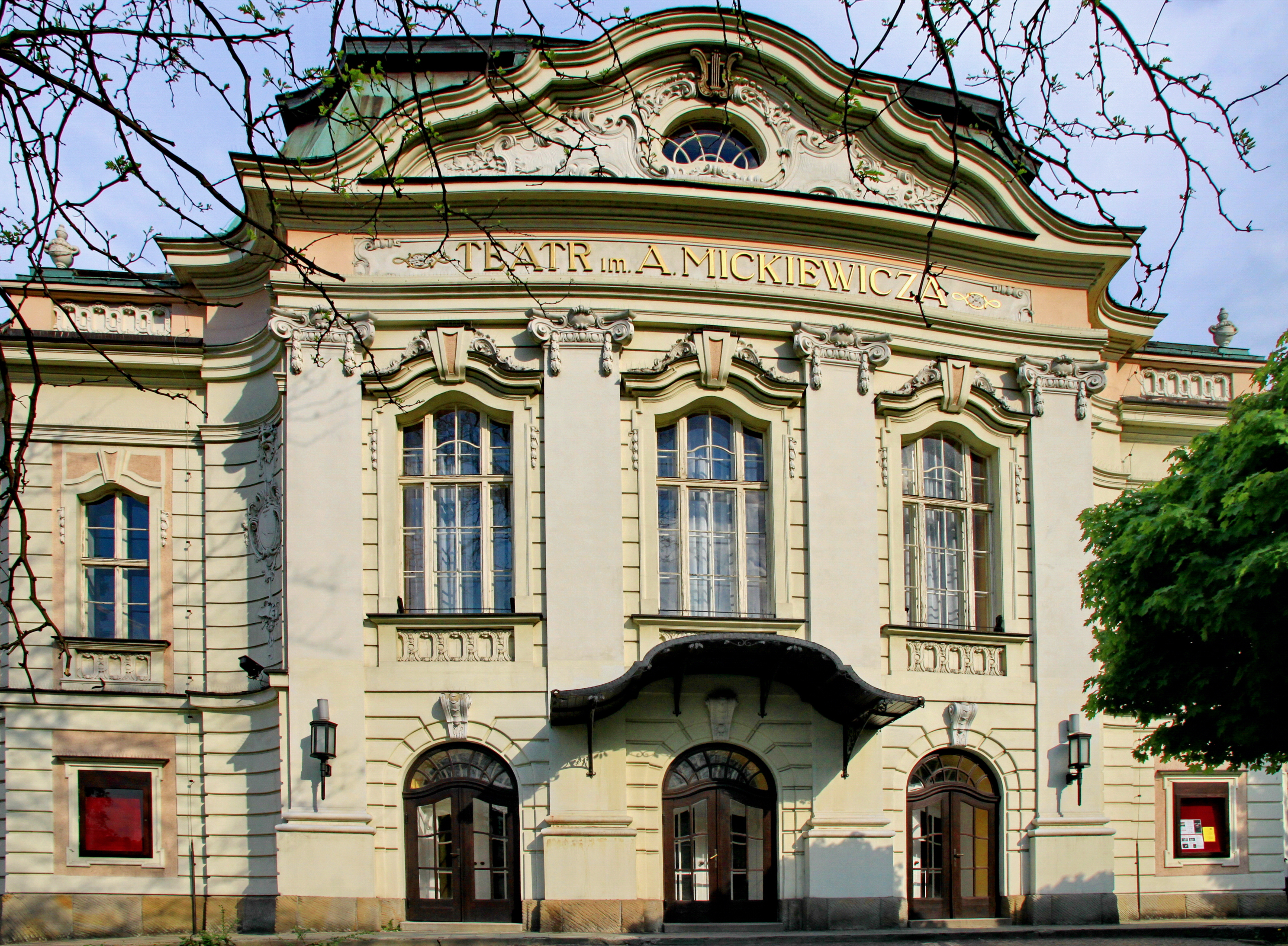 Cieszyn, former German Theatre, now Adam Mickiewicz Theatre, build in 1910